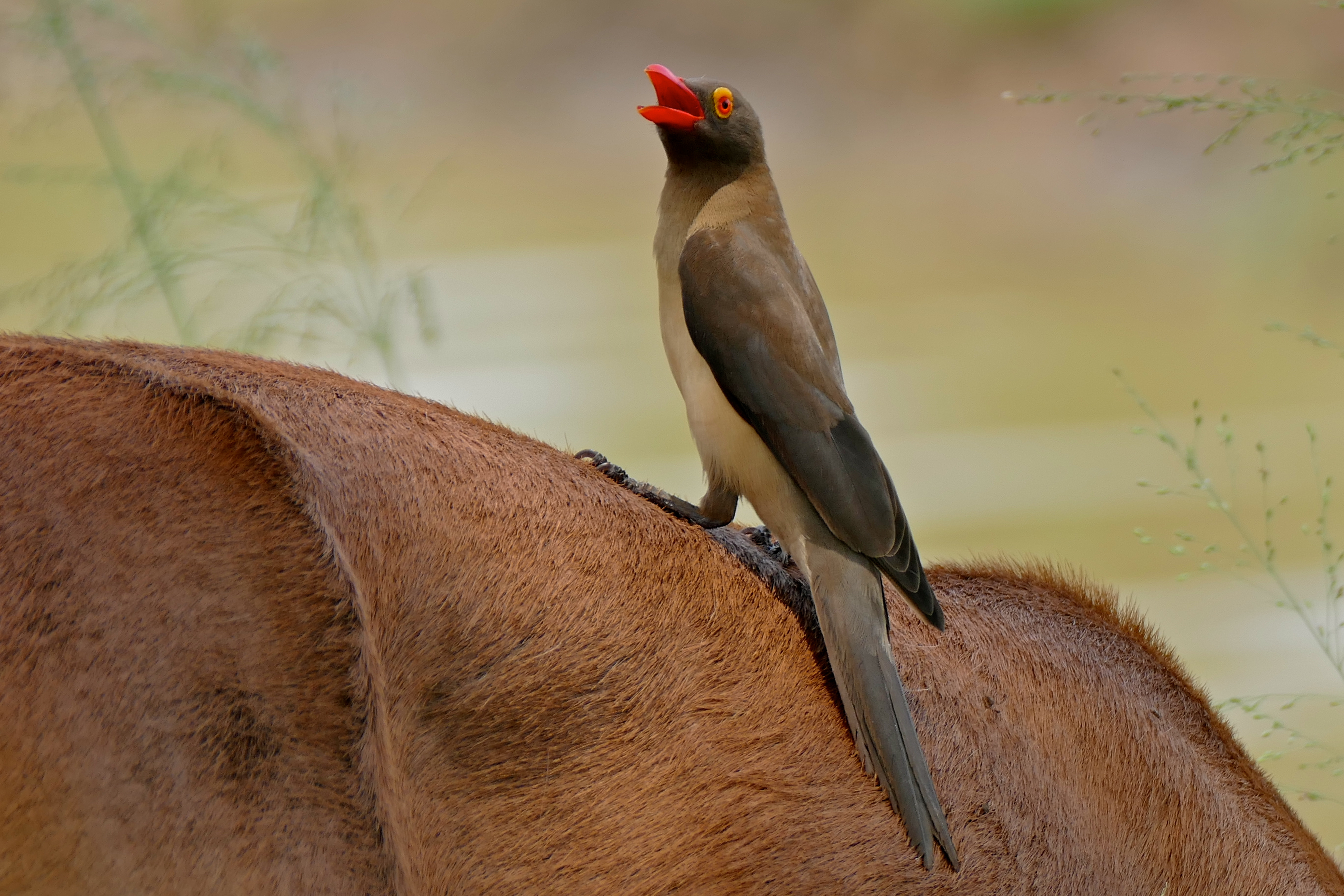 Duke's Waterhole, S137 Road South of Lower Sabie, Kruger NP, SOUTH AFRICA